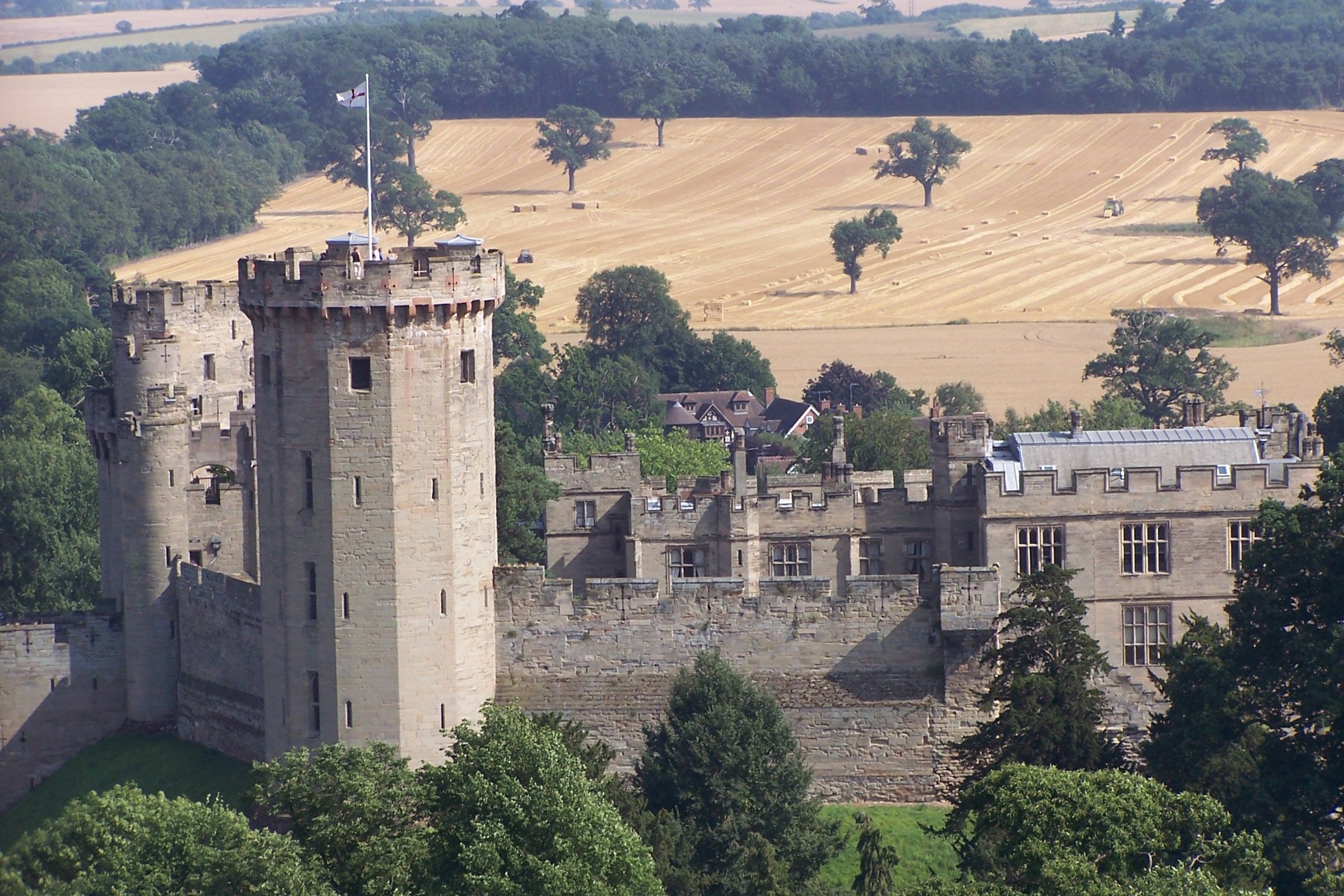 Warwick Castle seen from St Mary's Church in Warwick